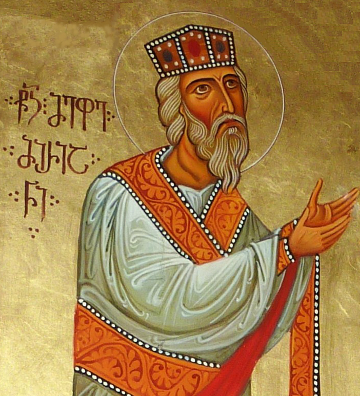 King Mirian III of Kartli